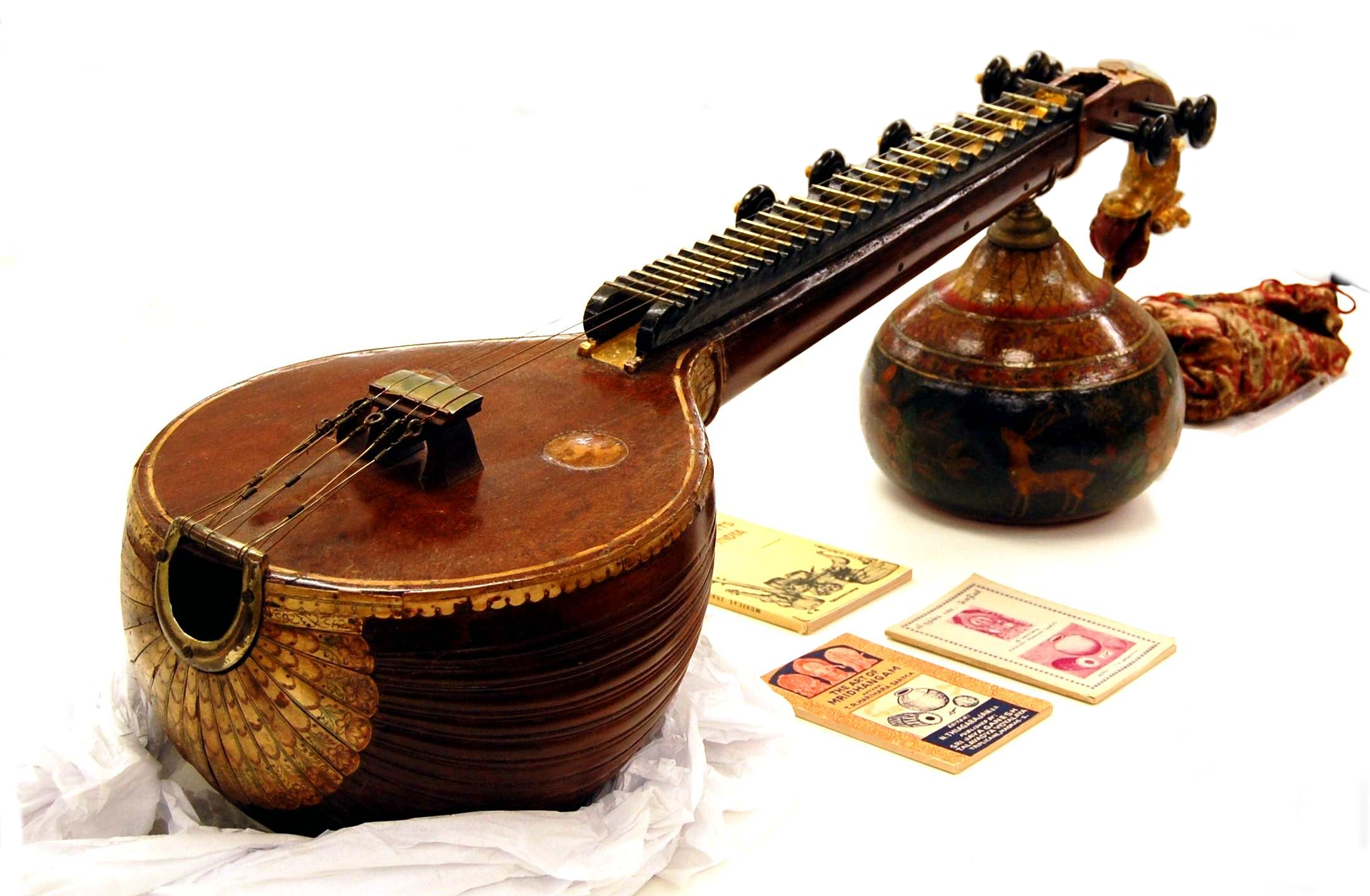 Indian; Vina; Chordophone-Lute-plucked-fretted